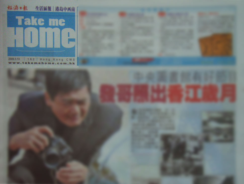 《Take me Home 生活區報》